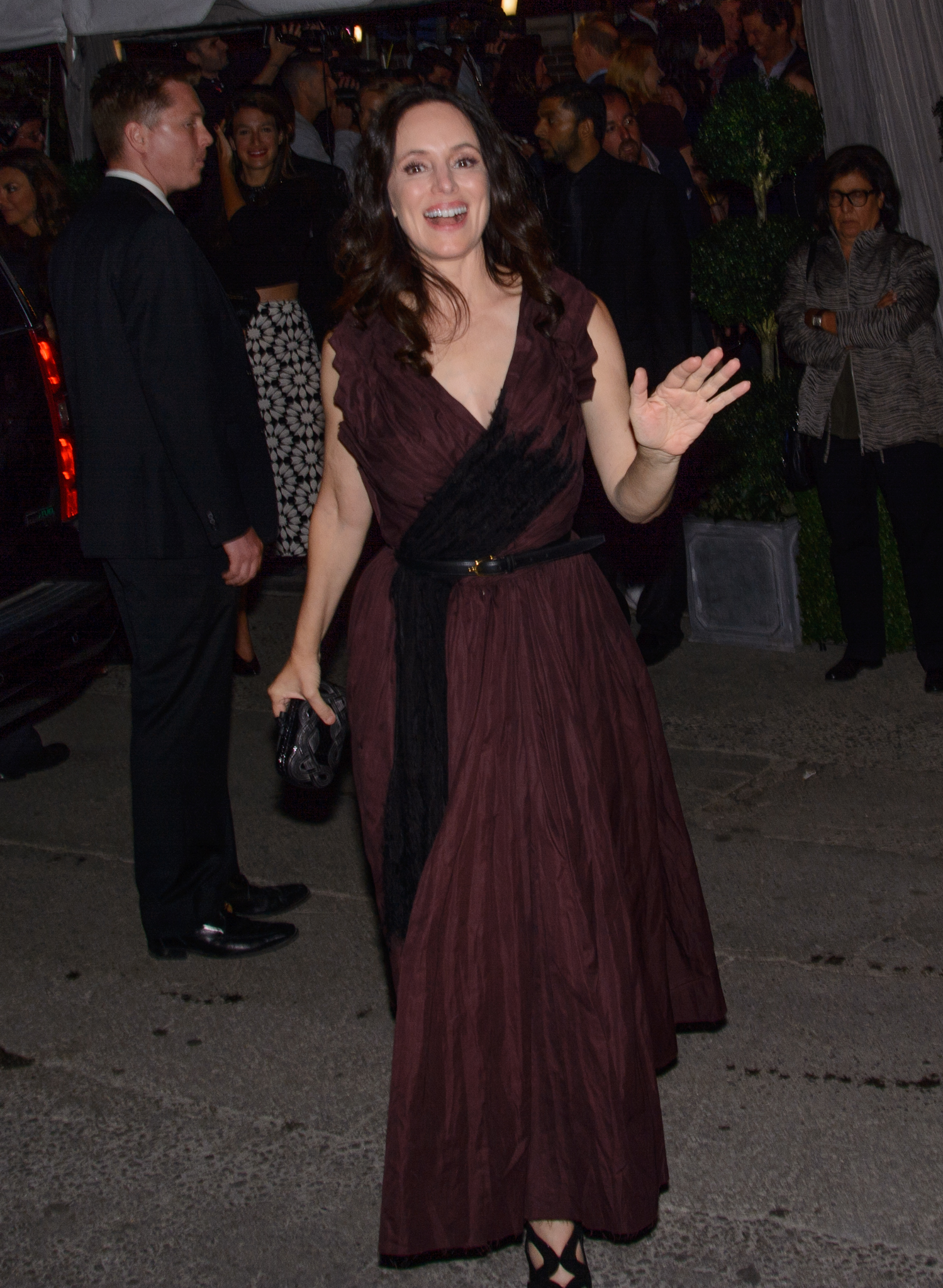 Actress Madeline Stowe arriving for the Hollywood Foreign Press Association & InStyle's 2014 TIFF Celebration